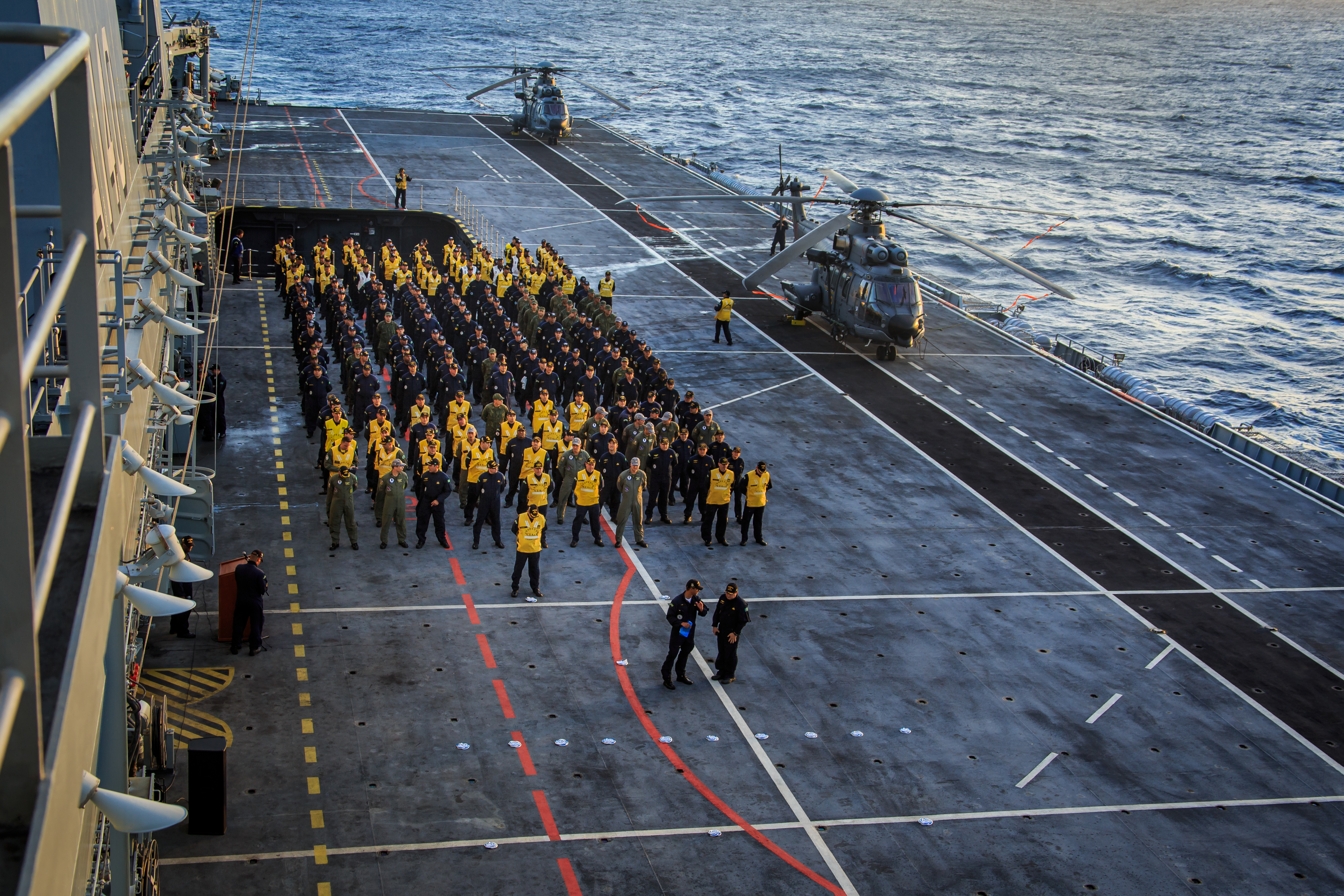 Foto: Alexandre Manfrim